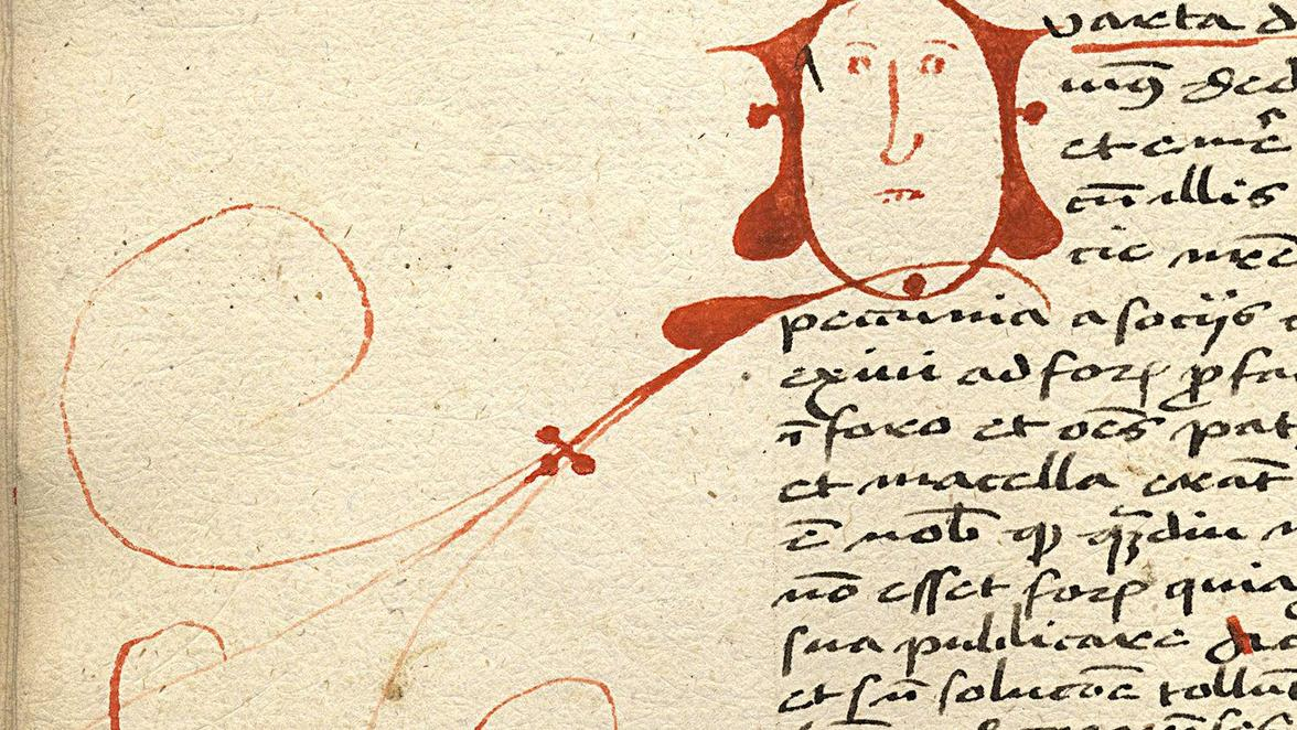 Detail from a page of the autograph manuscript of Felix Fabri's Evagatorium, Ulm, Stadtbibliothek